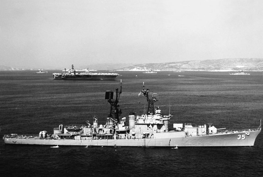 The U.S. Navy guided missile destroyer USS Mitscher (DDG-35) at Souda Bay, Crete, in November 1971. The aircraft carrier USS America (CVA-66) and two destroyers are visible in the background.